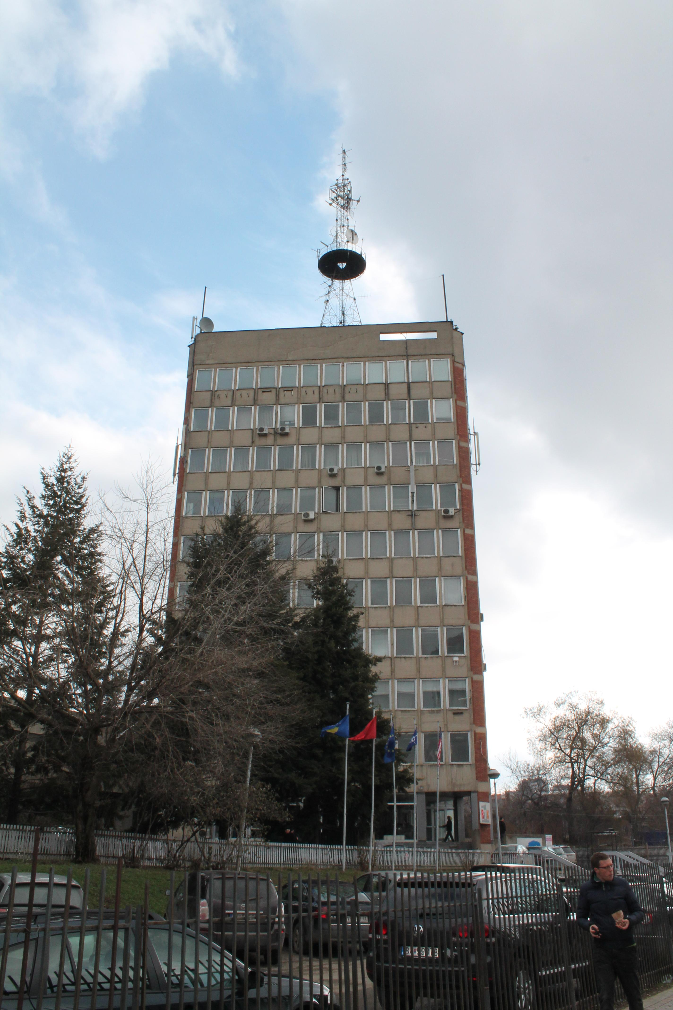 Radio Televizioni i Kosovës - RTK